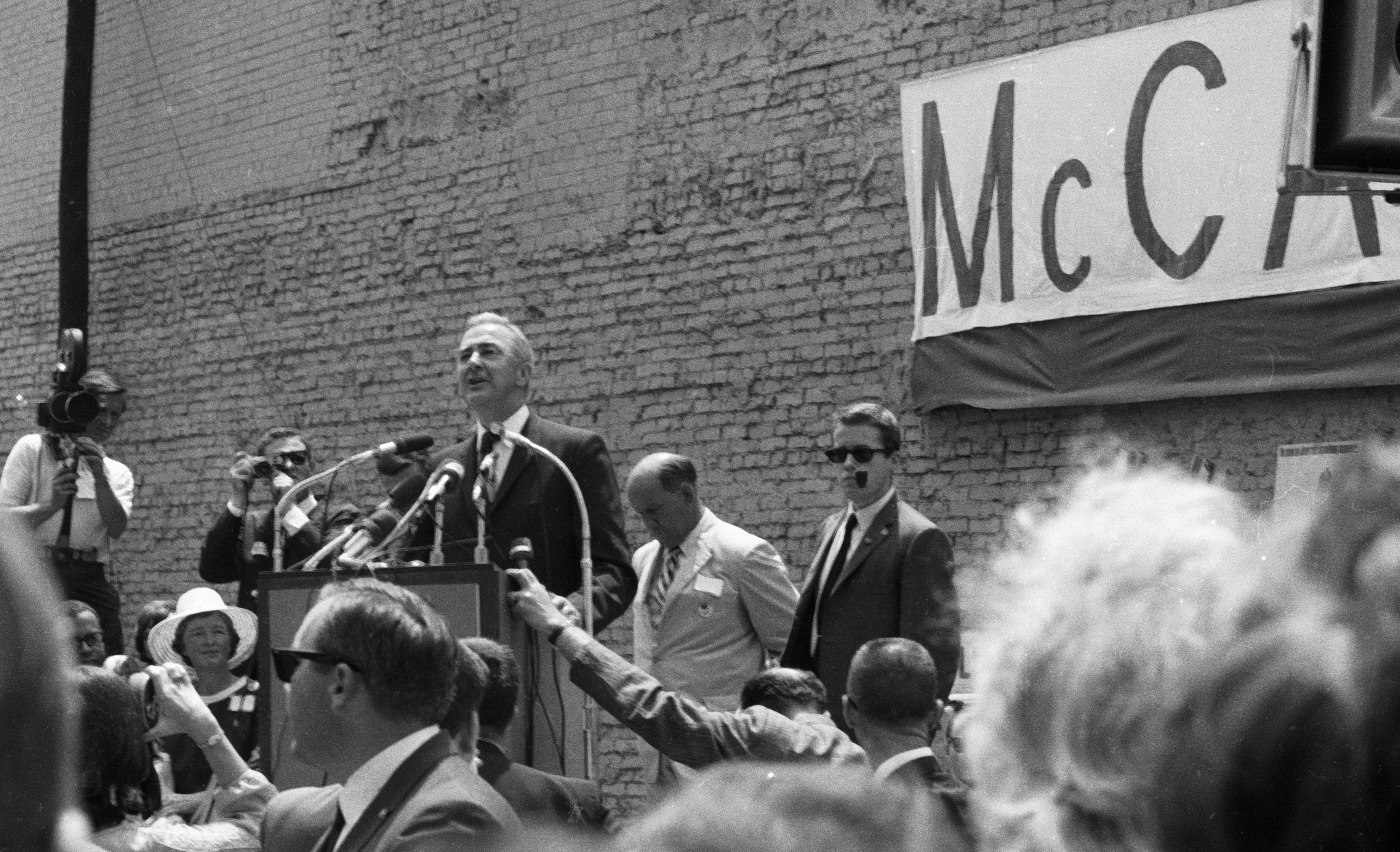 Presidential candidate Eugene McCarthy speaks in Seattle, Washington